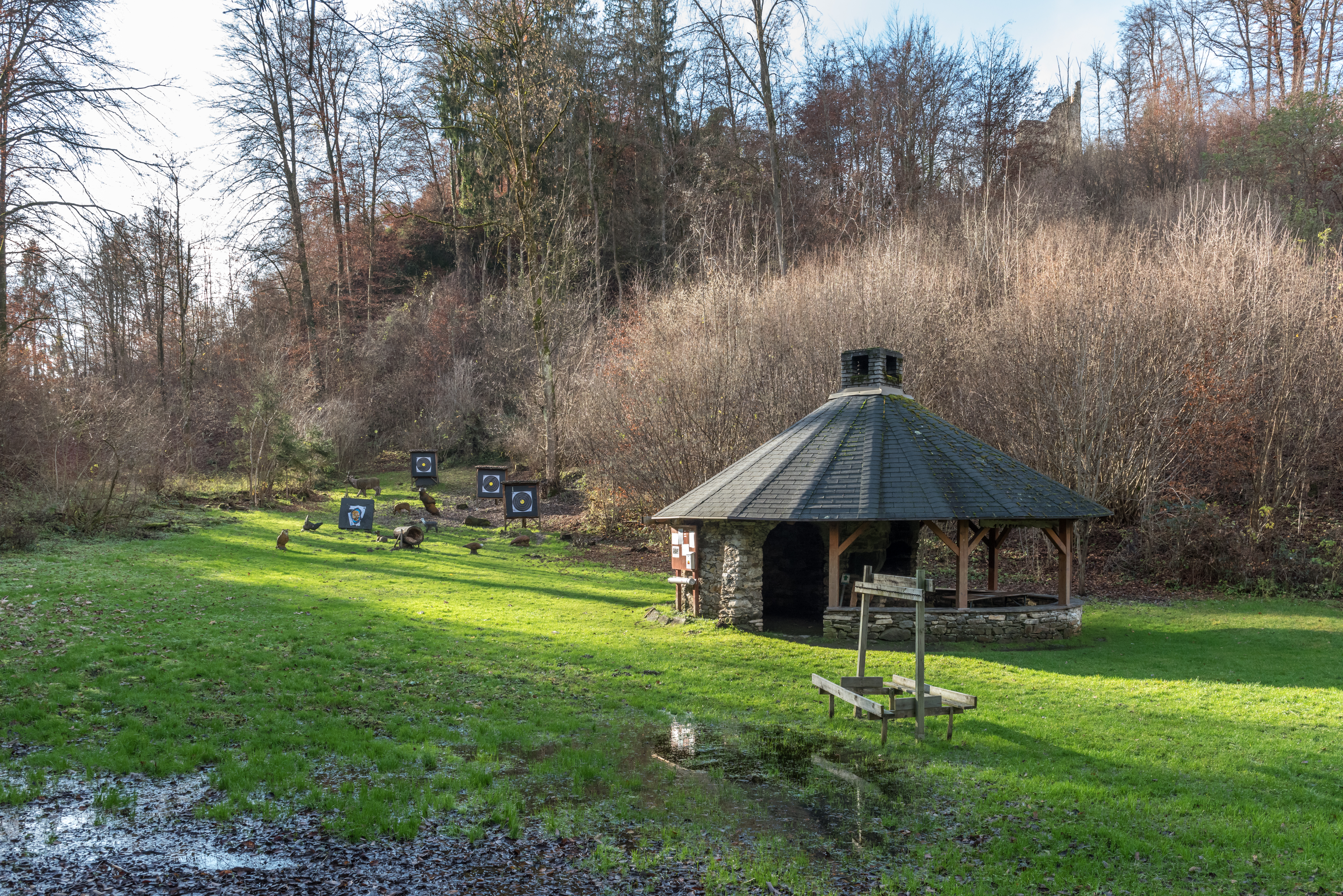 Public grill on Leonstein way, municipality Pörtschach am Wörther See, district Klagenfurt Land, Carinthia, Austria, EU